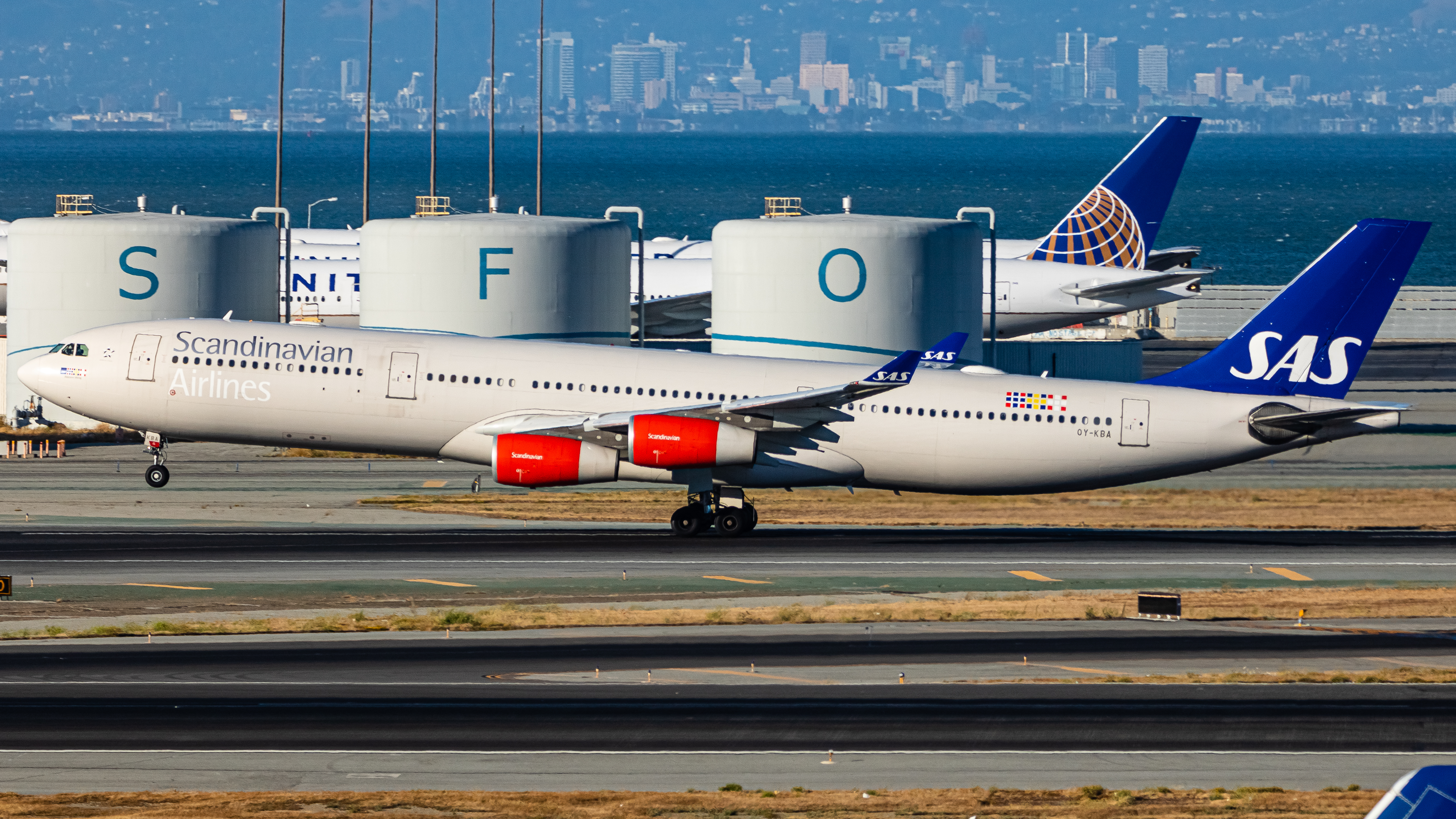 Here's a SAS A340 taking off from San Francisco International Airport